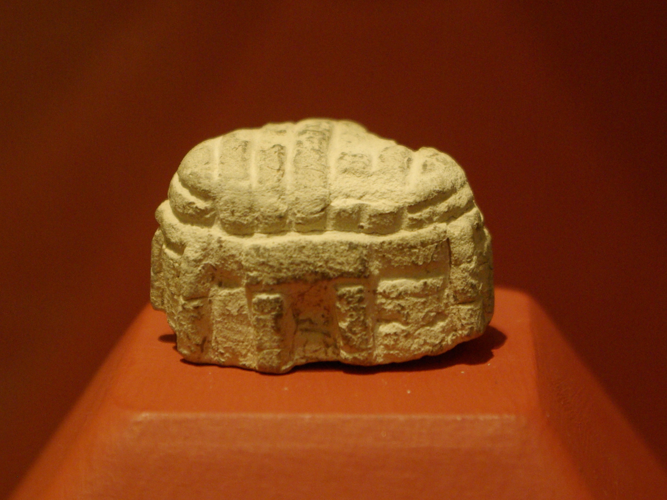 Malta Valletta, National Museum of Archaelogy